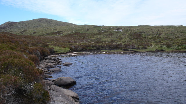 Loch Scadabhagh, North Uist A small bay on this large and complex loch. There were many brown trout (Salmo Trutta) rising in this area.